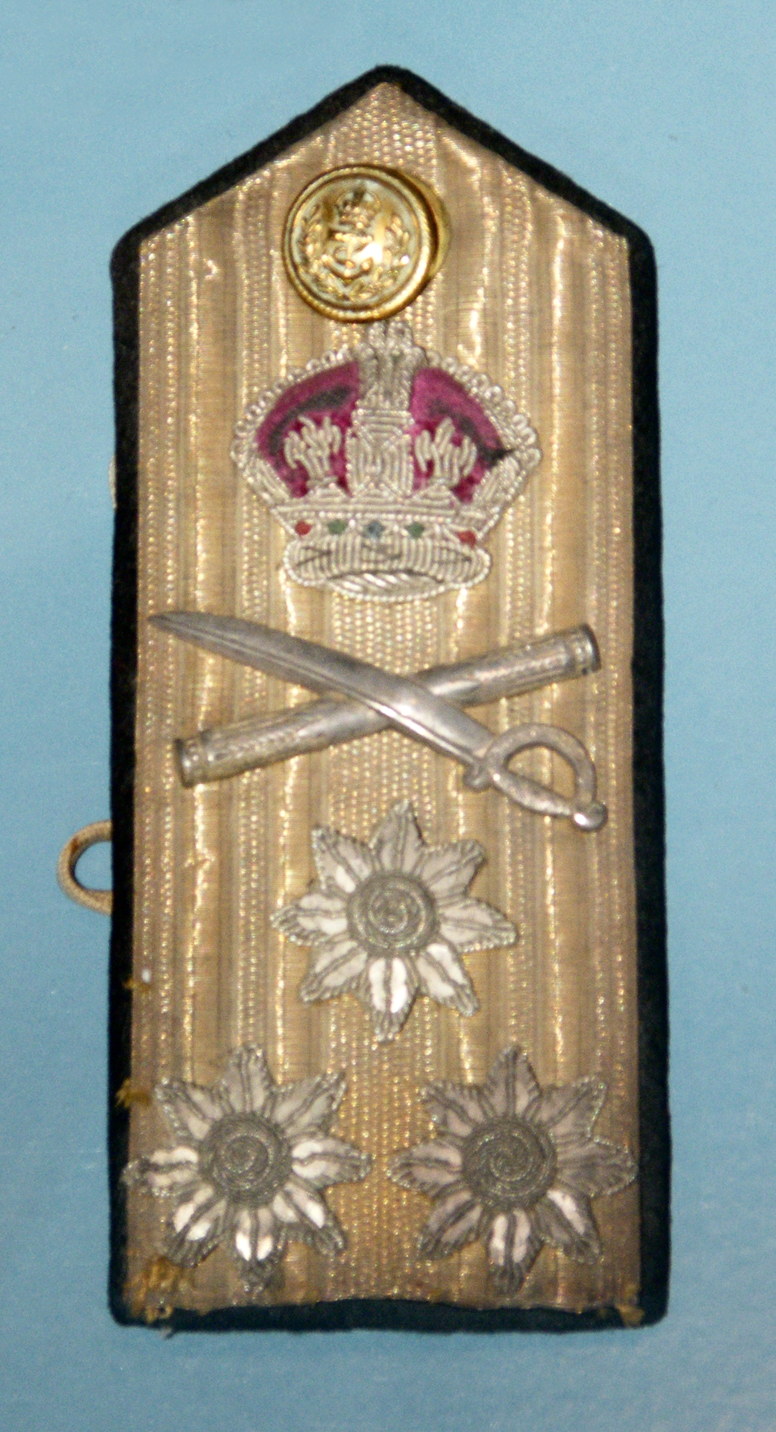 Photograph of a World War II Royal Navy admiral's shoulder board. The photograph was taken at the D-Day Museum in Arromanches, Normandy.